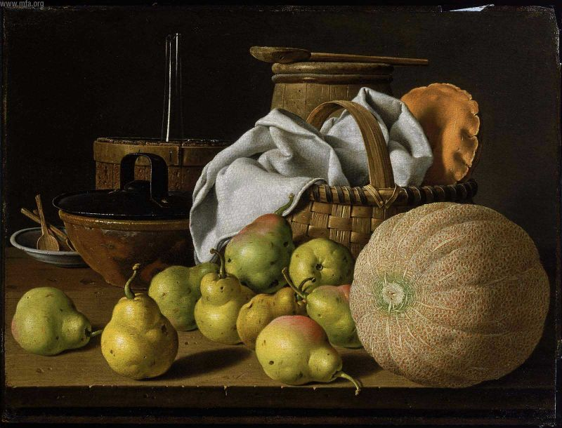 Still Life with Melon and Pears